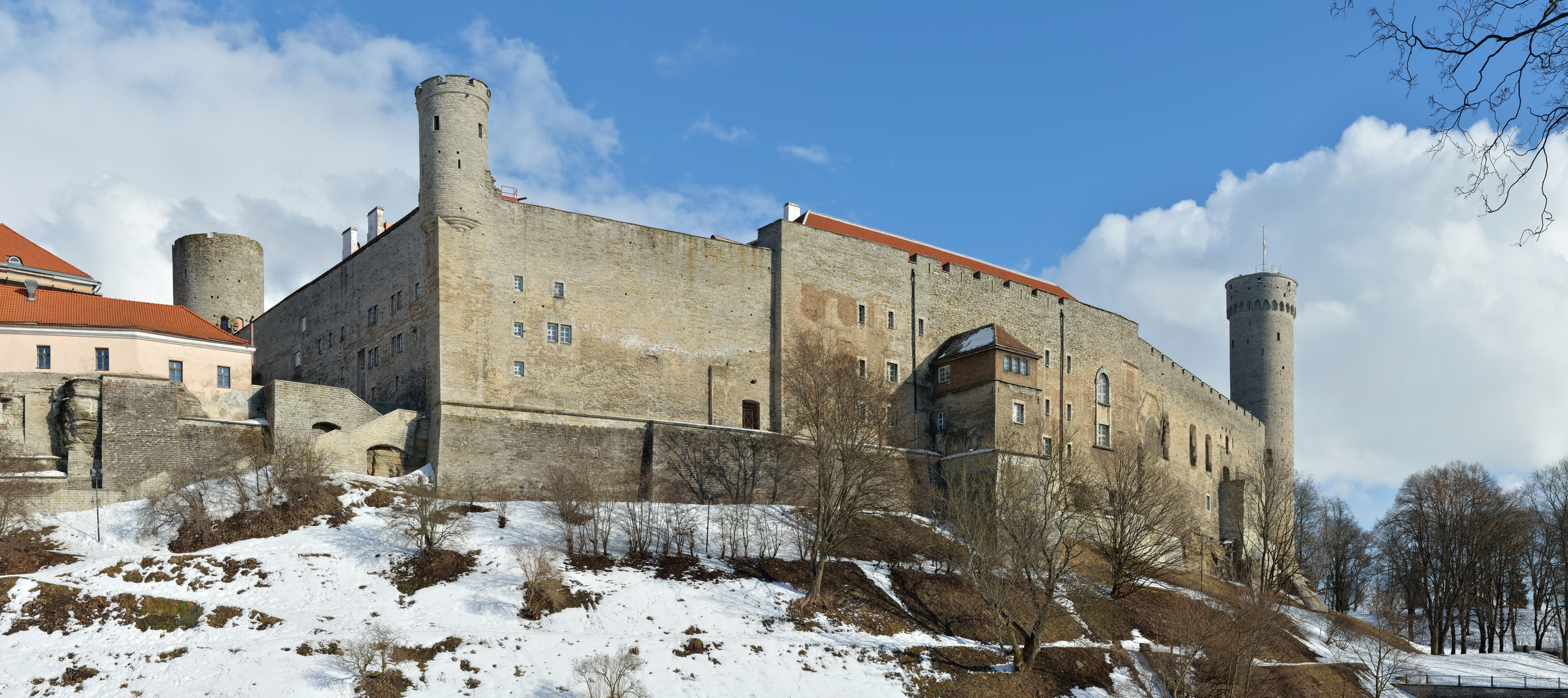 Toompea castle